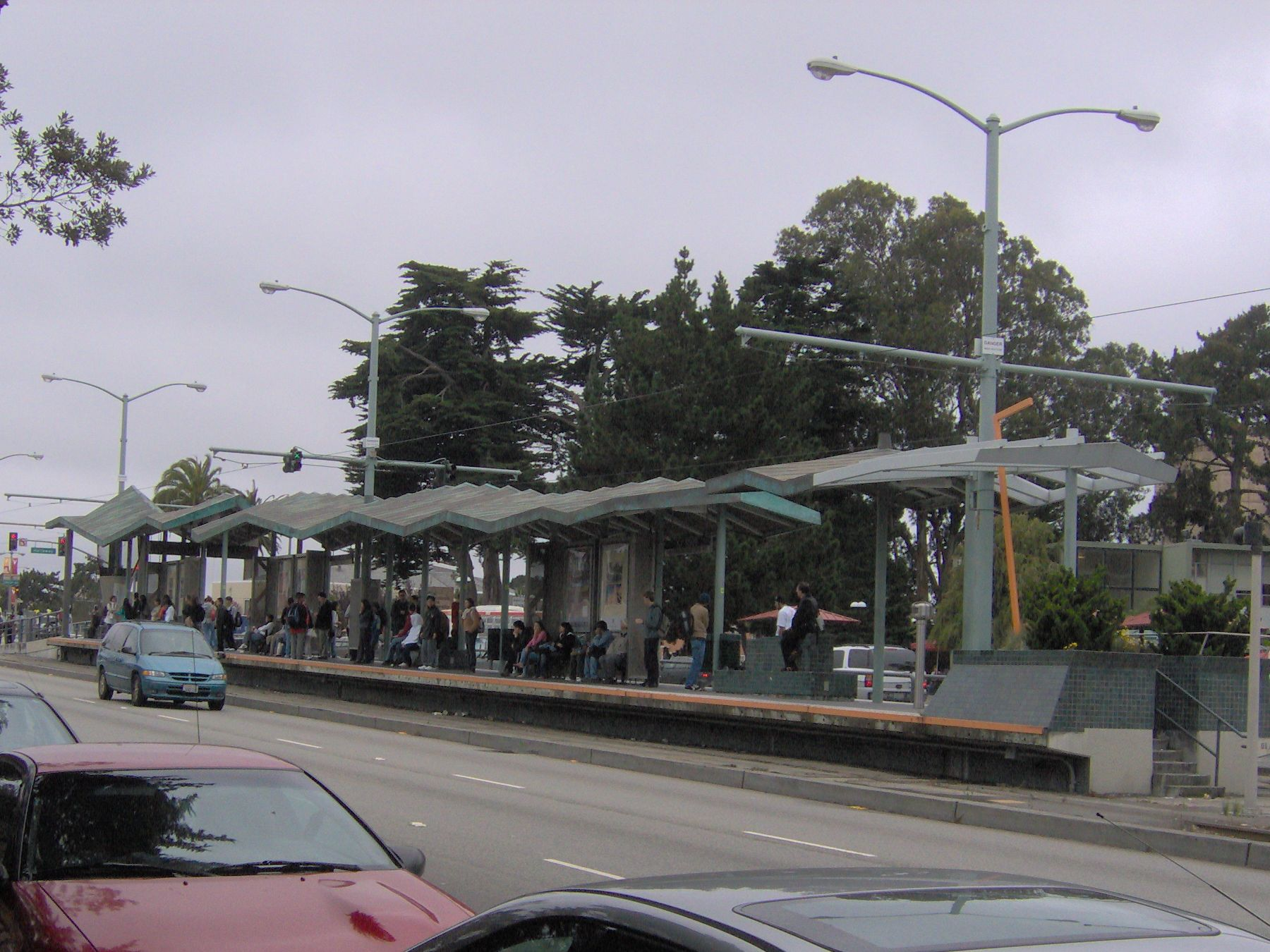 San Francisco State University high-platform station on September 14th, 2005